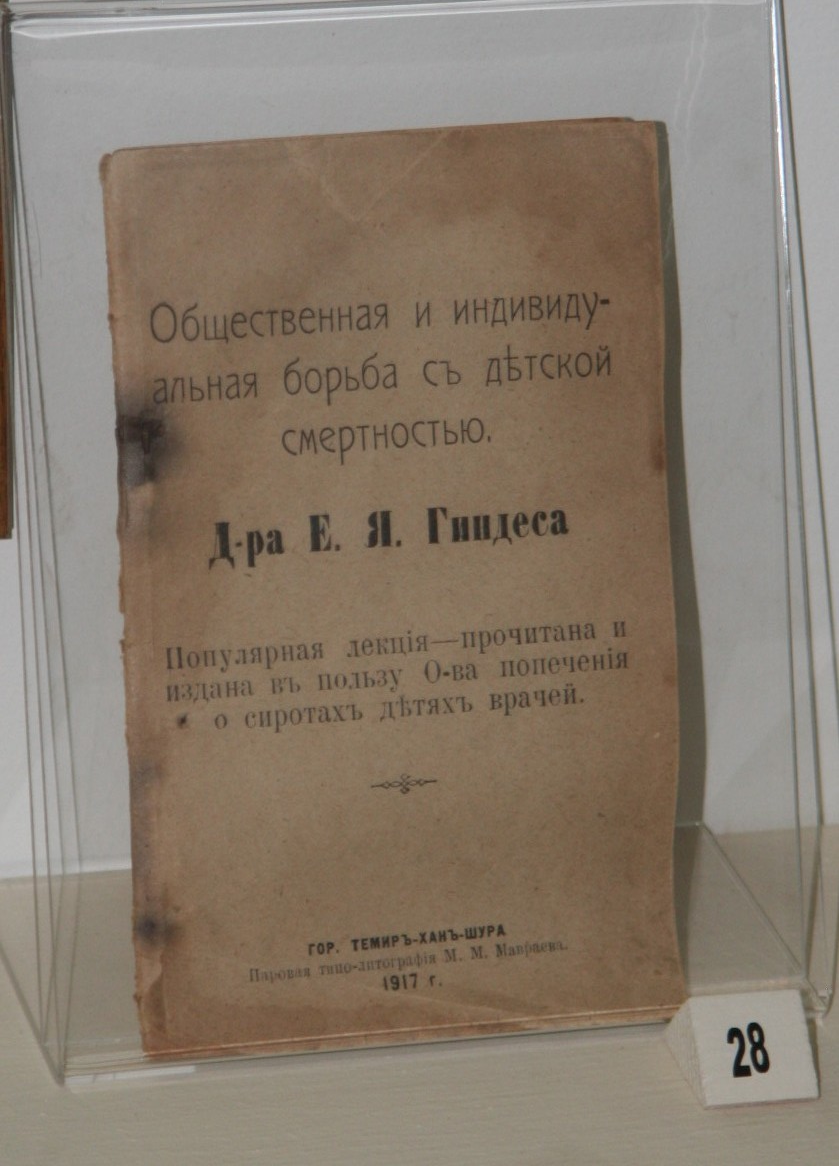 Book of Yevsey Gindes